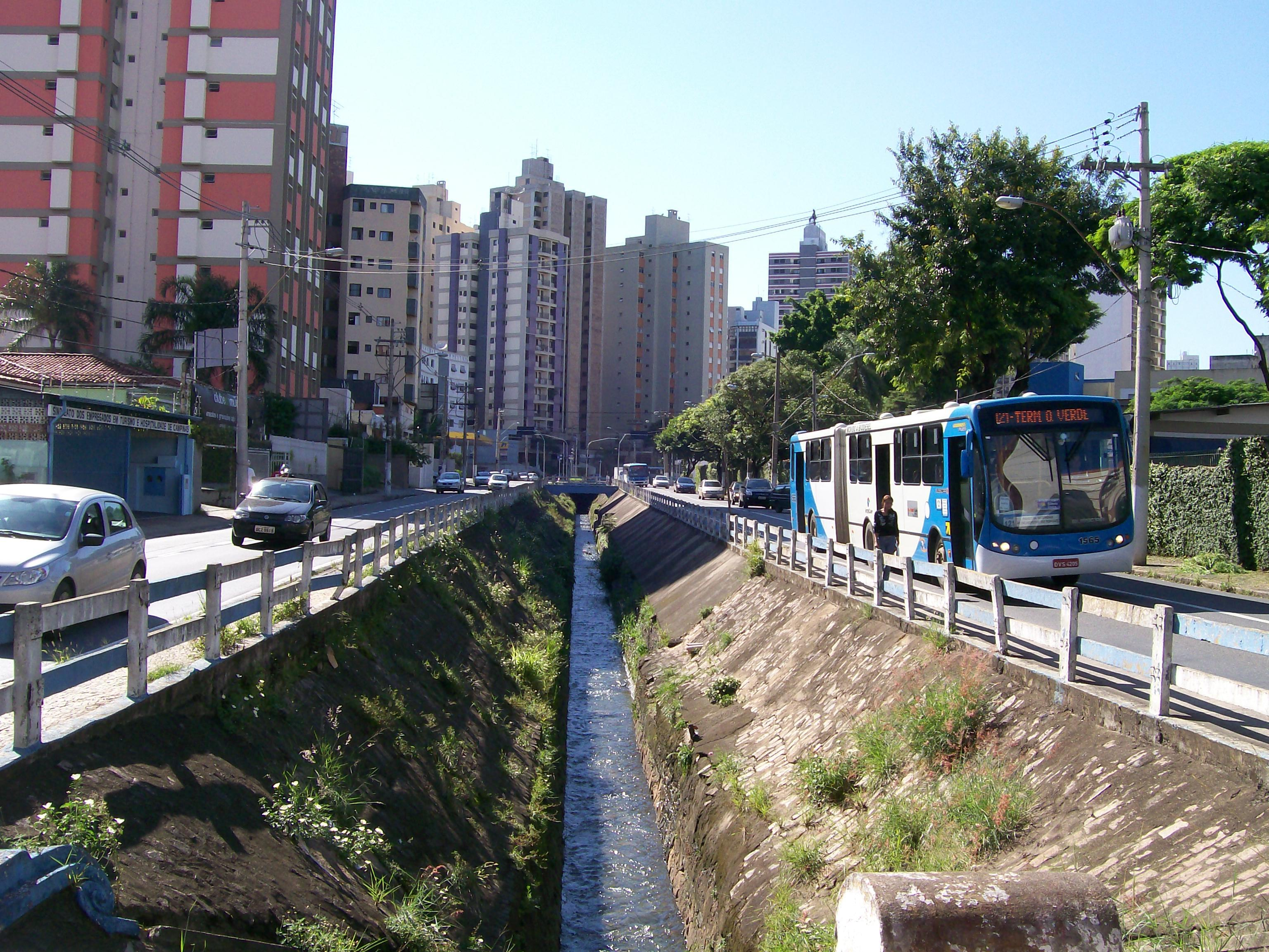 Anchieta Avenue's end has a creek in its middle. Campinas, Brazil.